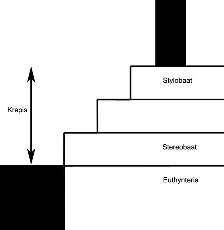 description of the foundation details of Greek Temples